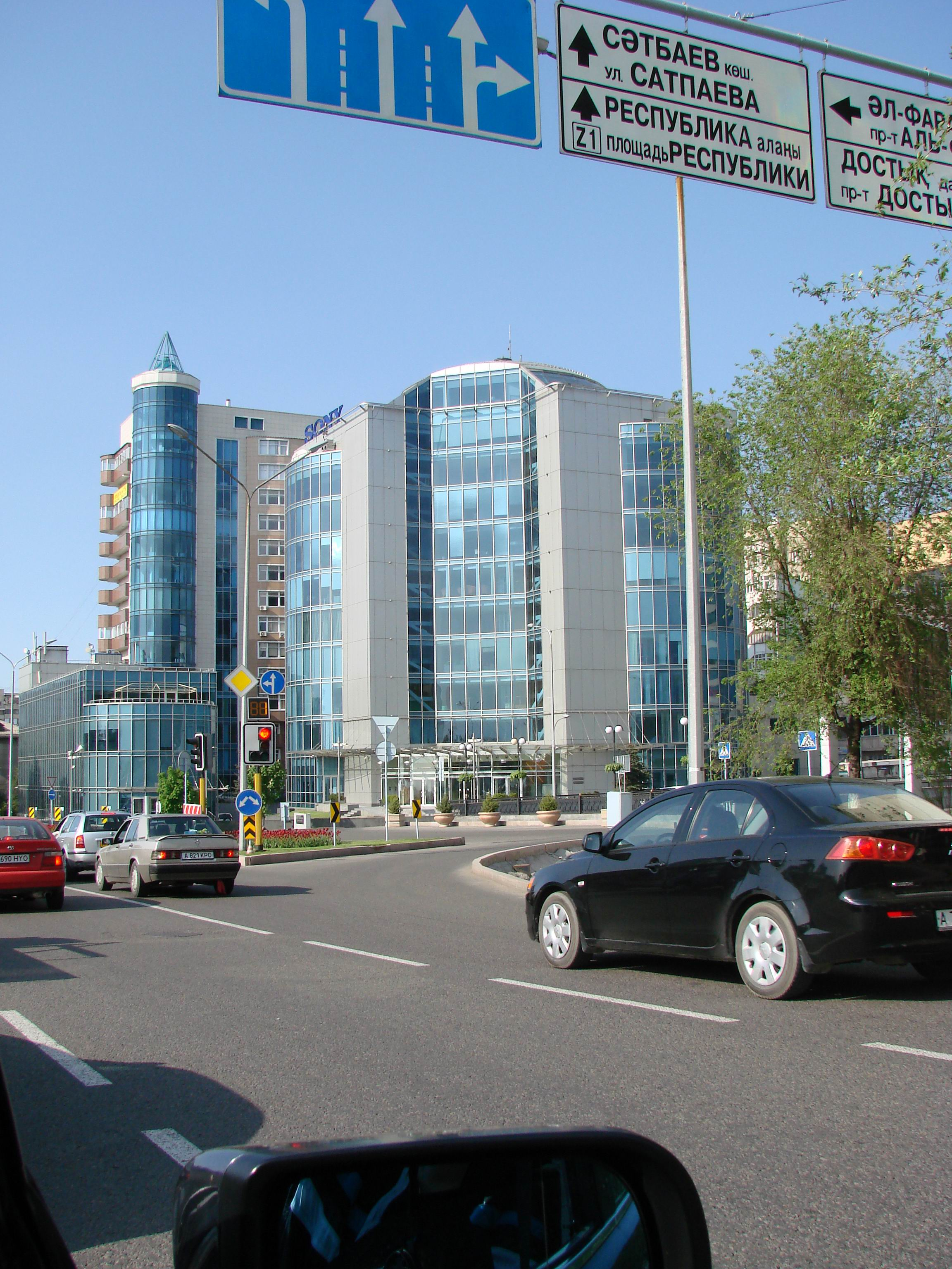 Furmanov street, Almaty